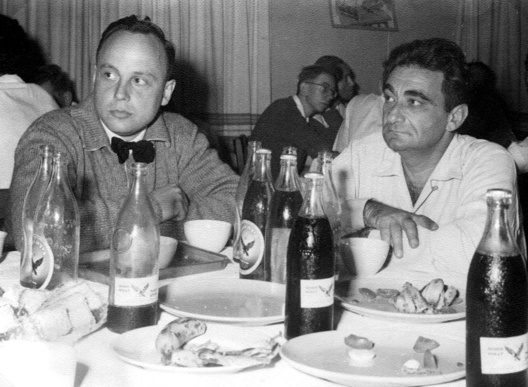 People of Israel